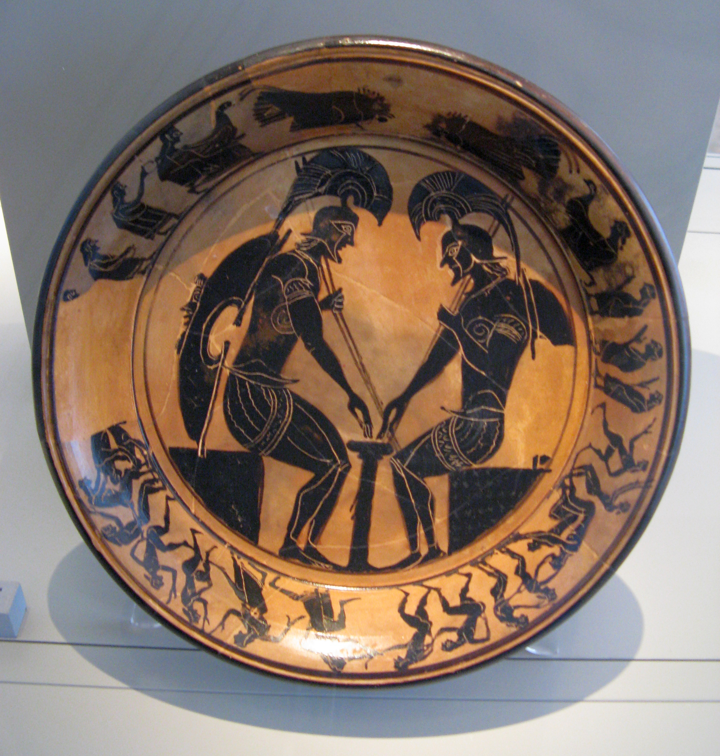 Two armed warrior playing a board game, attic black-figure plate, ca. 520 B.C., from Olympia.